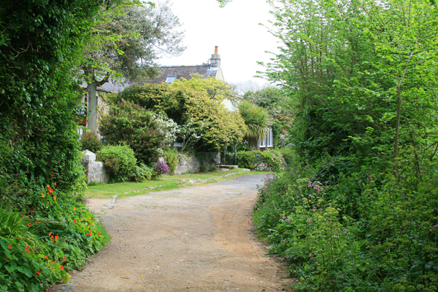 Approaching Holy Vale